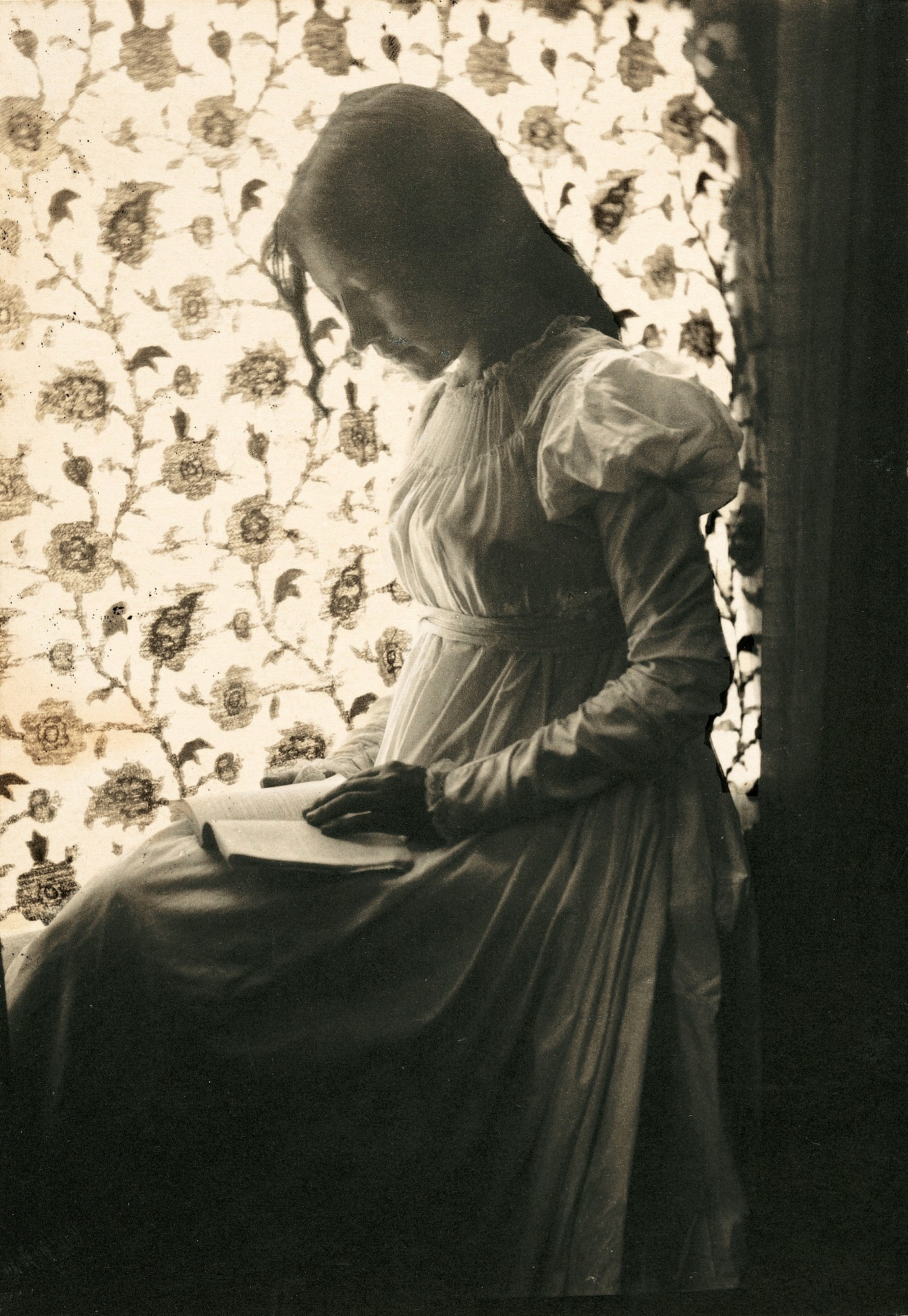 SI Neg. 2004-57787. Date: na...Platinotype: "Zitkala-Sa" reading by windowlight; "Zitkala-Sa" in pencil on verso ..Credit: Gertrude Kasebier (Smithsonian Institution)